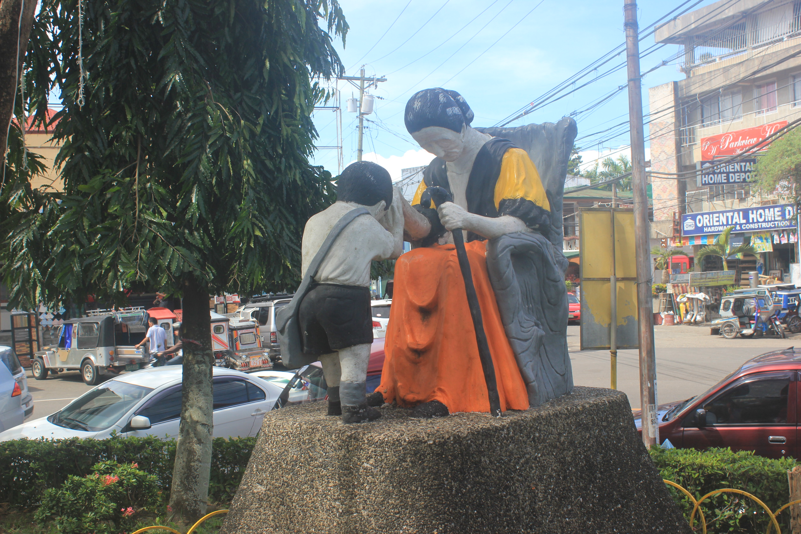 "Pagmamano"